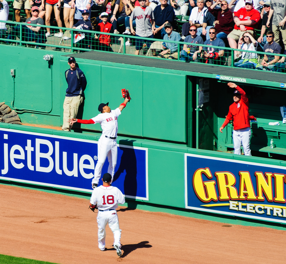 Mookie Betts makes a spectacular play, robs Nats of a homer